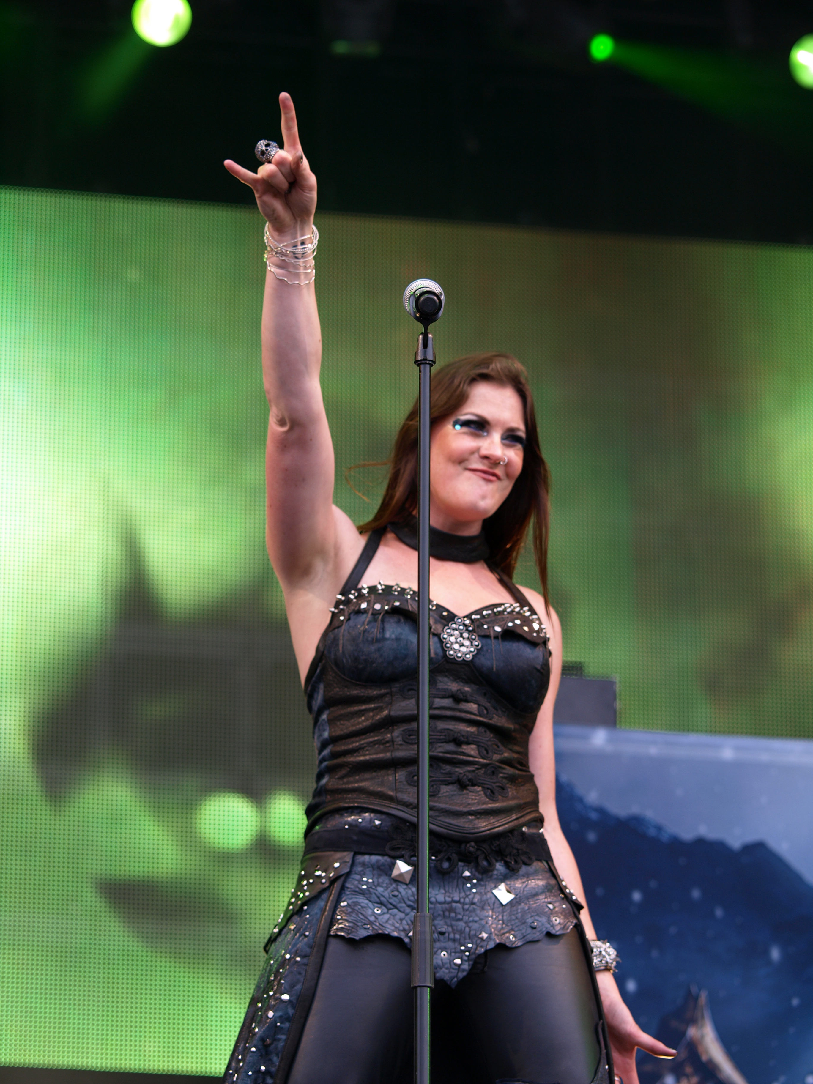 Finnish band Nightwish at Tuska Open Air 2013